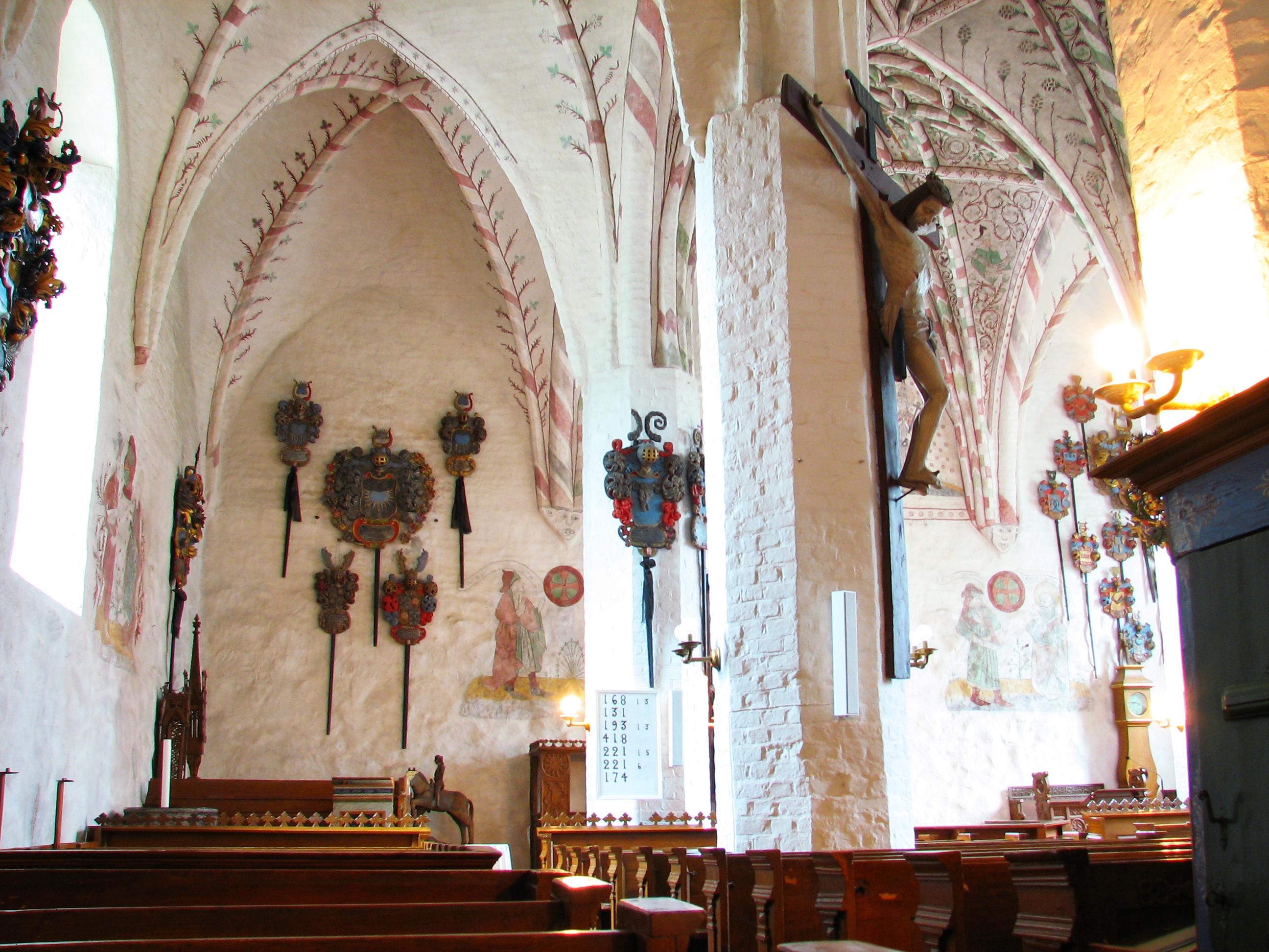 Sauvo Church, Finland, interior